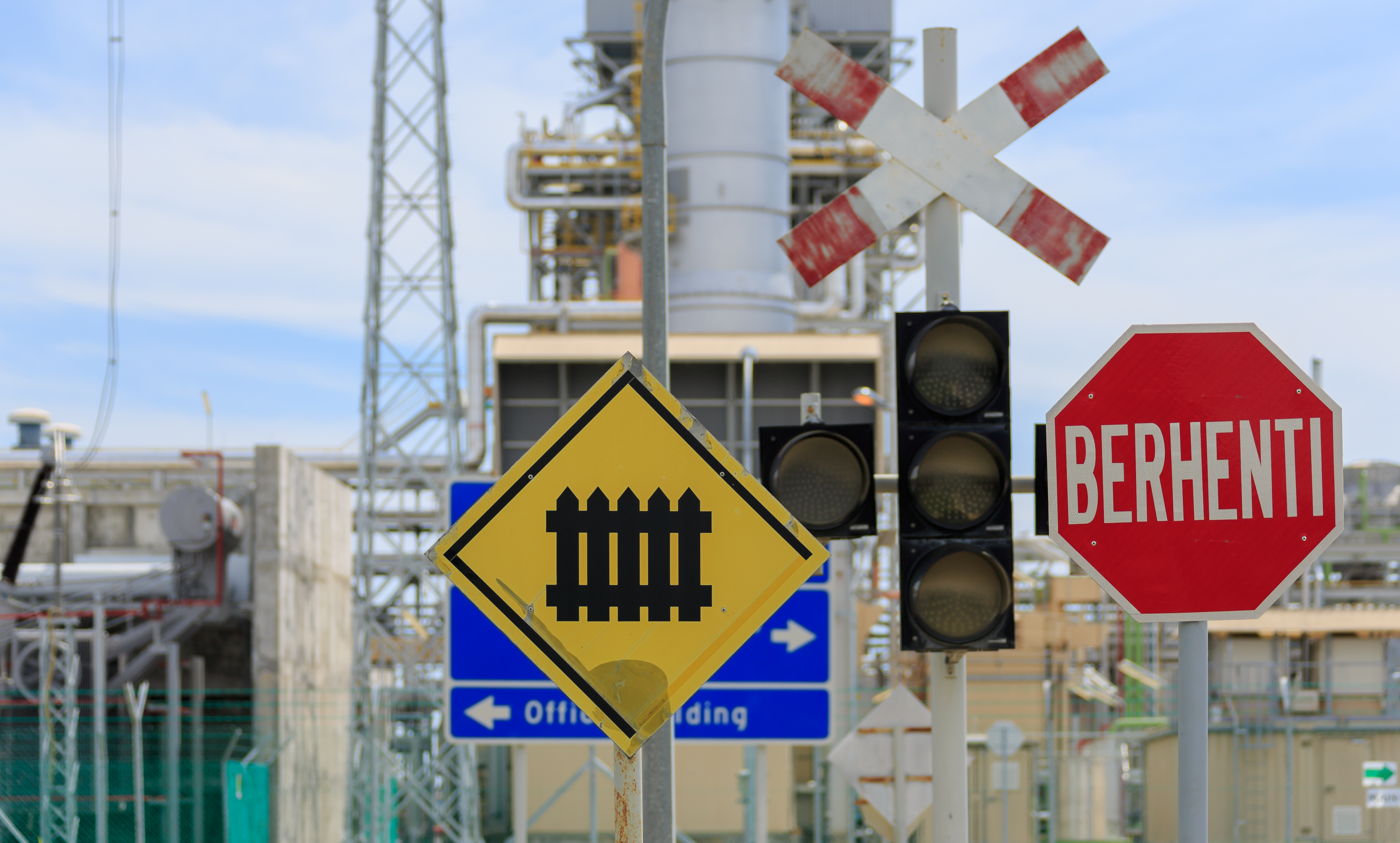 Traffic signs in Malaysia: Warning sign "Level crossing" and regulatory sign "Stop"(Photo taken in Kimanis at Kimanis Power Plant)